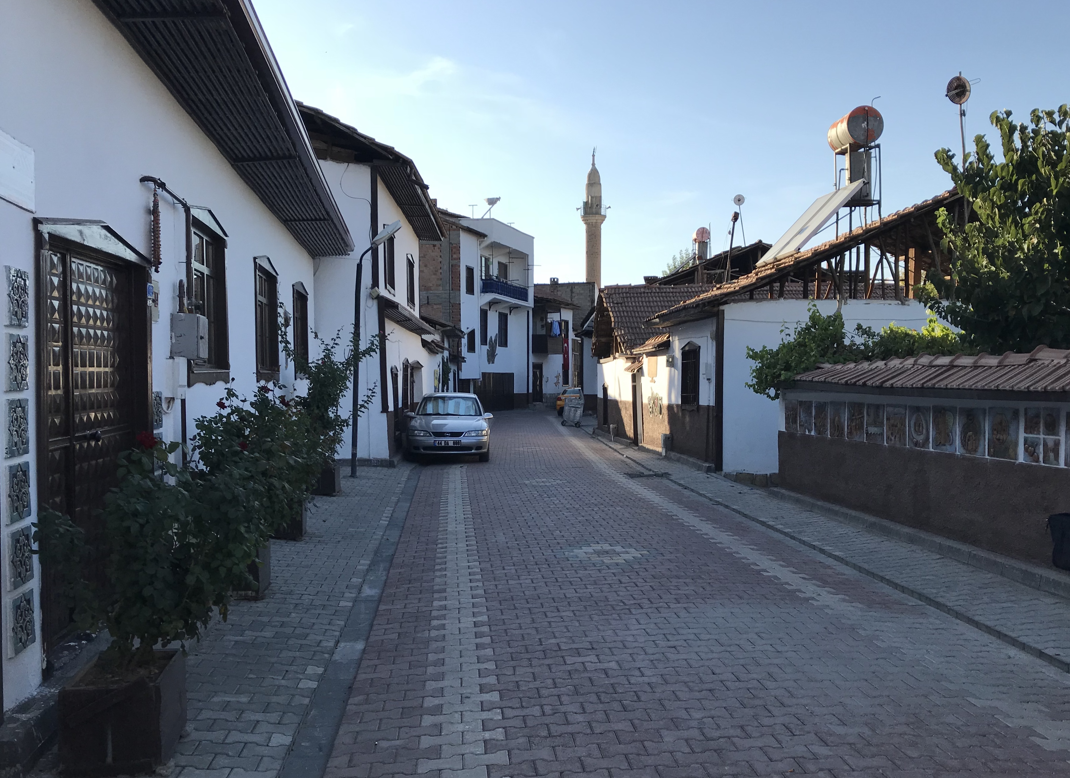 An evening view of Metin Sözen Street in Karahan quarter of Battalgazi - Malatya, Turkey